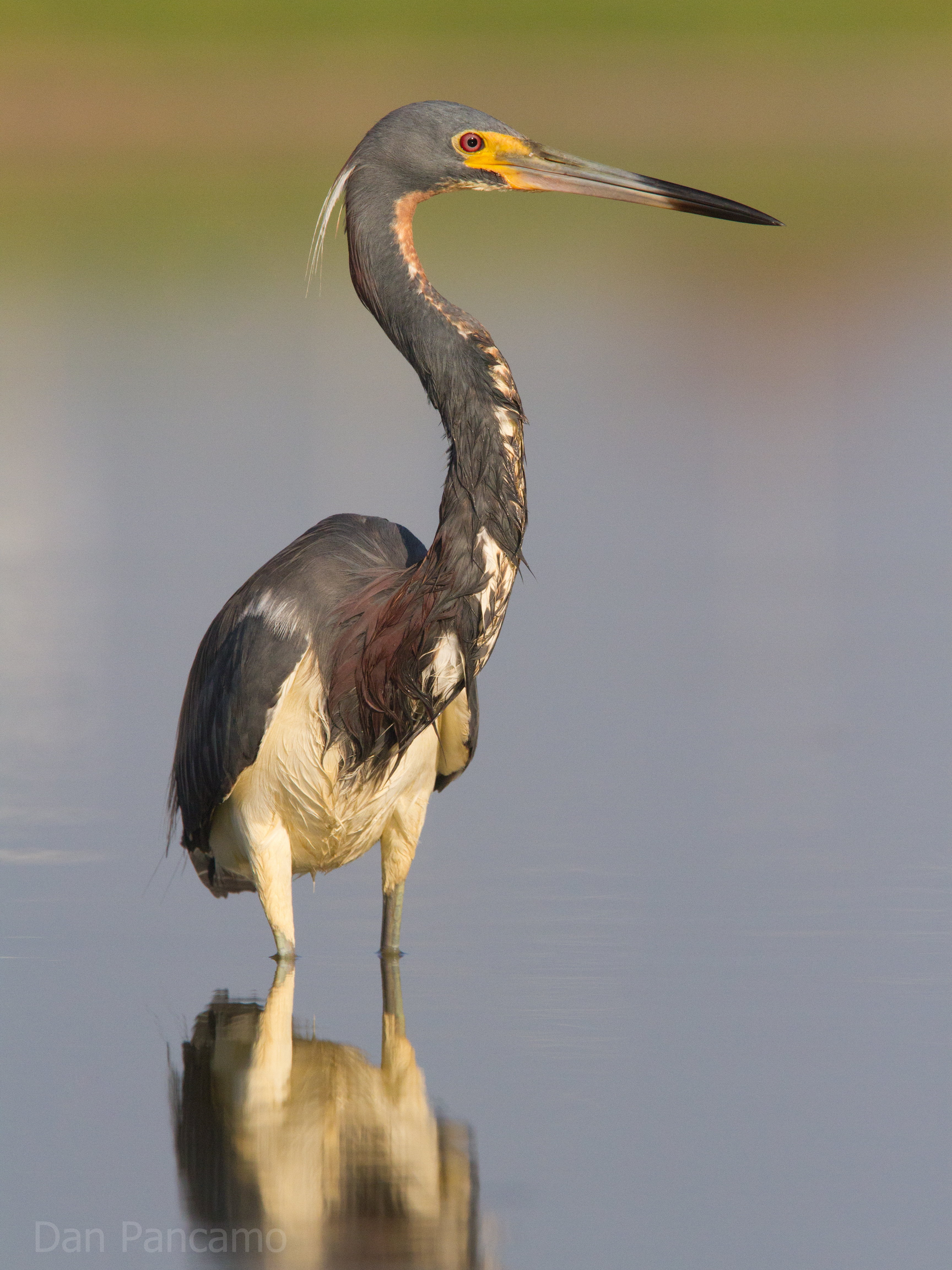 Tricolored Heron